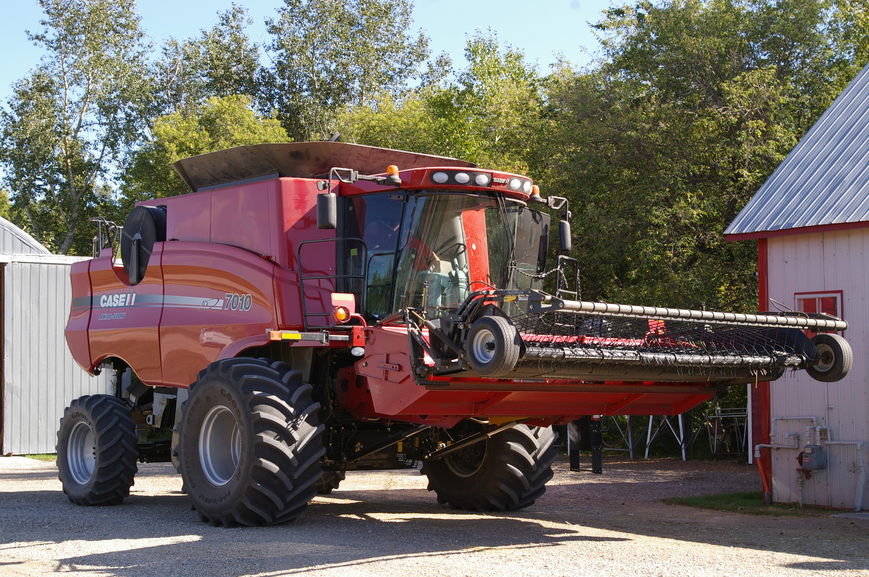 Case IH 7010 combine harvester